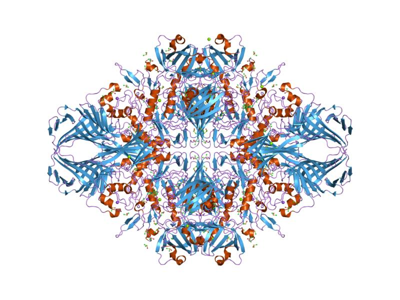 Cartoon representation of the molecular structure of protein registered with 1jz3 code.